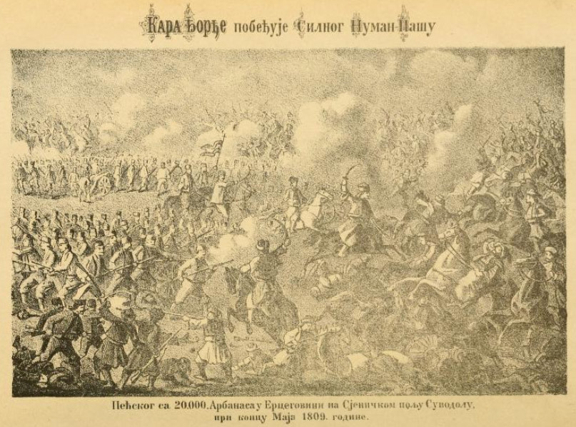 Battle of Suvodol, late May 1809. Serbian rebels fought 20,000 Albanians under Numan Pasha in Suvodol.